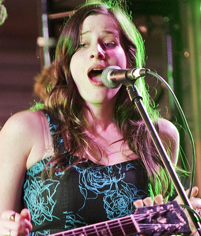 Wardell (Sasha & Theo Spielberg) JUBILEE MUSIC & ARTS FESTIVAL — June 7, 2013 In the Arts District, Los Angeles.